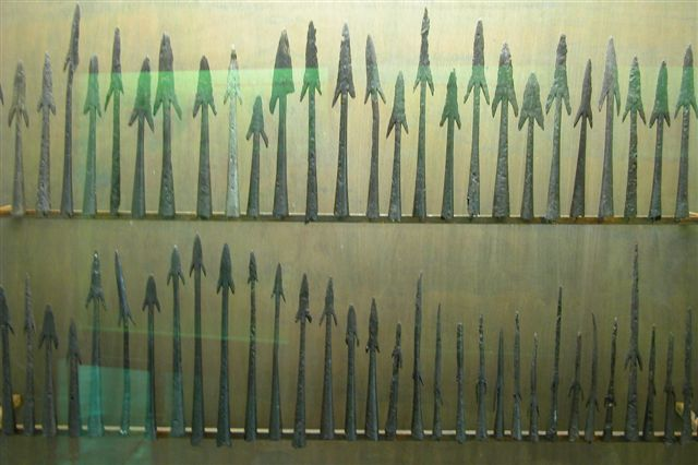 Found from Nydam Mose